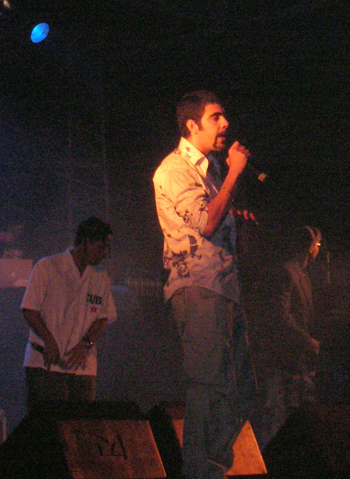 Concert by rap and Cuban music fussion band Orishas in Leioa, Biscay, Spain.